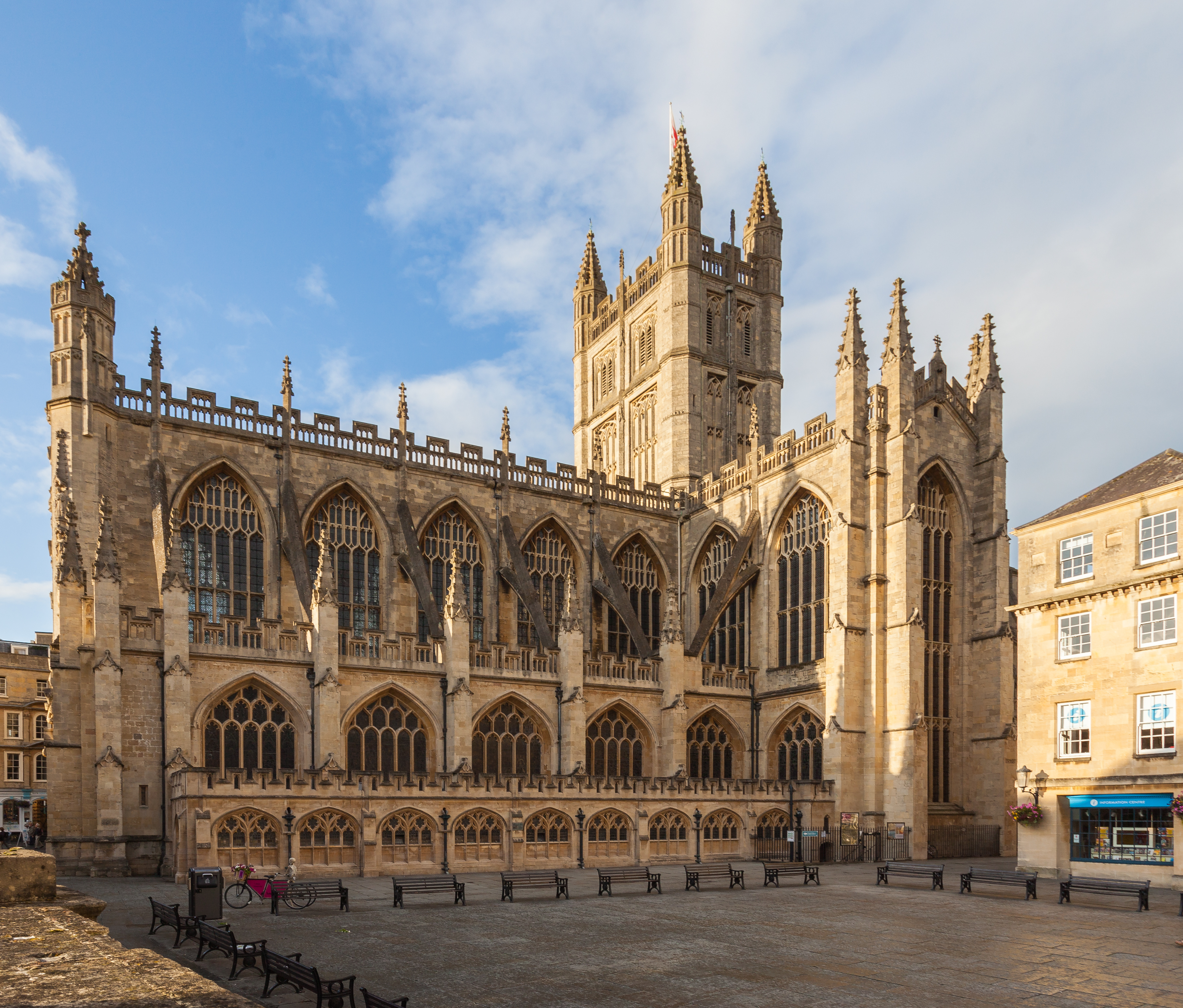 Bath Abbey, Bath, England